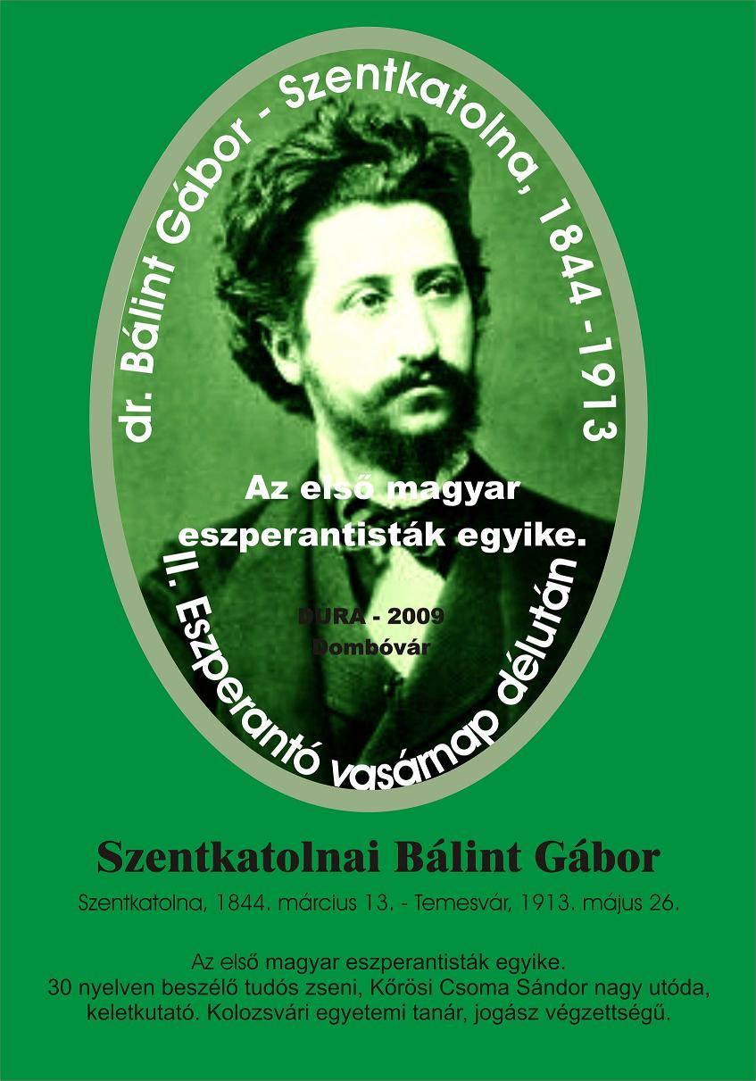 Szentkatolnai Bálint, Gábor (1844-1913) Goldziher Ignác Goldziher Ignác Európai és magyar nyelvtudomány Kedves Márta! Turpis error! Nem Szentkatolnai Bálint Gábor van a képen hanem Goldziher Ignác. Goldziher Ignác mek oldalán látható. Szentkatolnai Bálint Gábor 33 nyelven beszélő nyelv zseni. Nem összetéveszthető a kép, ha jobban megnézi! Bálint Gábor kolozsvári egyetemi tanár alapította meg az eszperantó nyelvet Kolozsváron. Az eszperantó szövetség oldalán található kép is turpis error! Az alábbi oldalon találja a képet Bálint Gáborról.